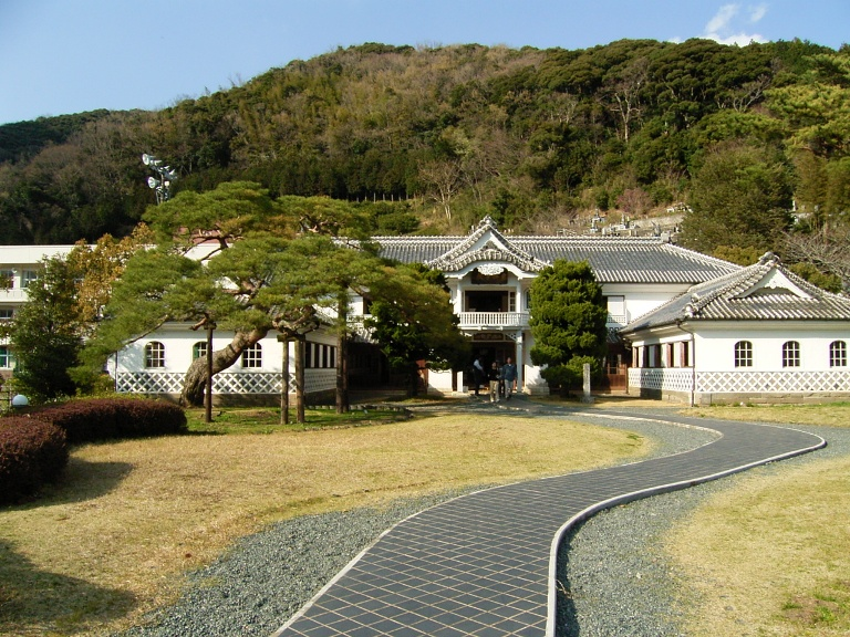 Old Iwashina school Matsuzaki town Shizuoka Japan